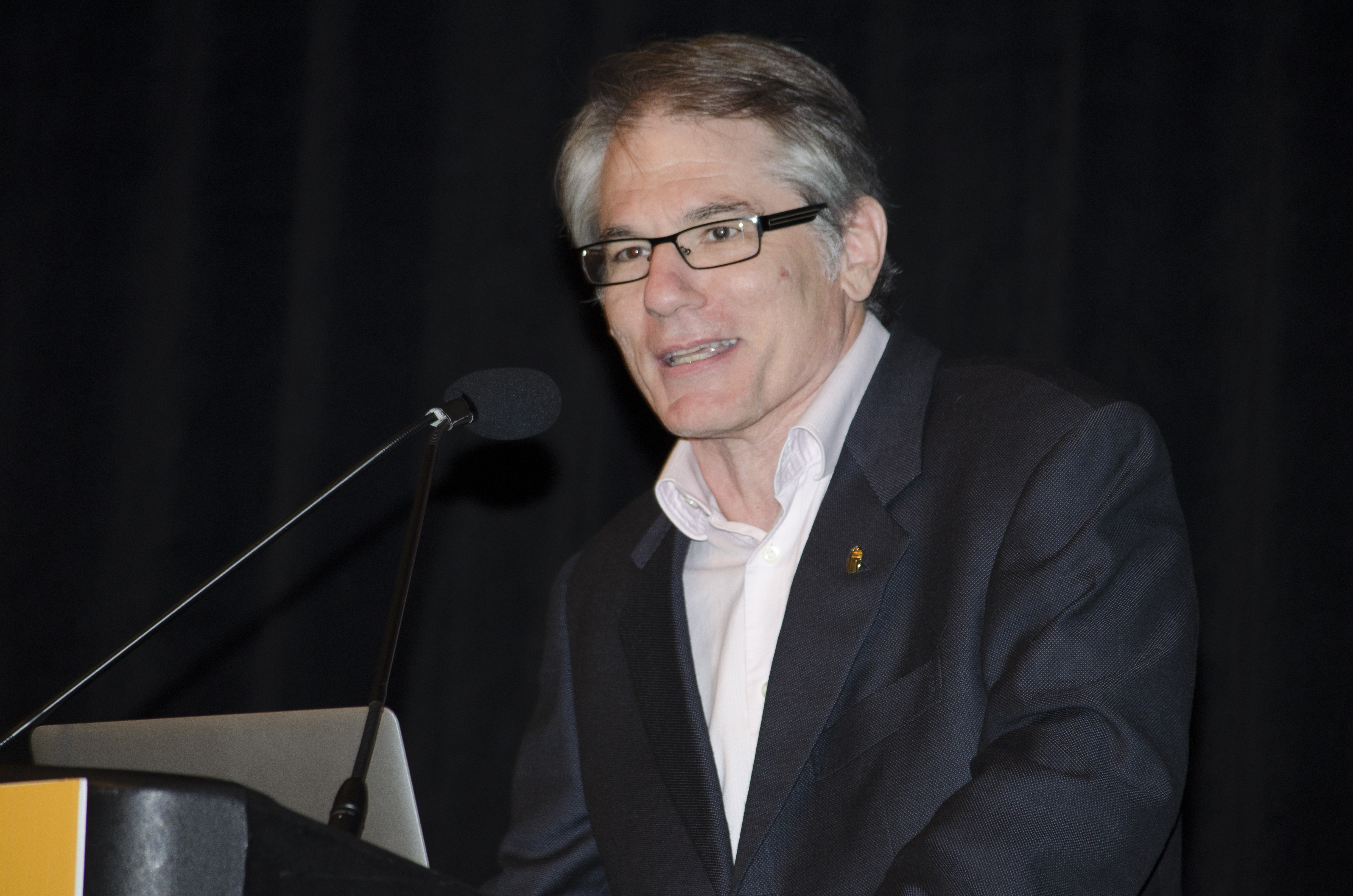 KN2 ISMB 2014 Accomplishment by a Senior Scientist Award Eugene (Gene) Myers